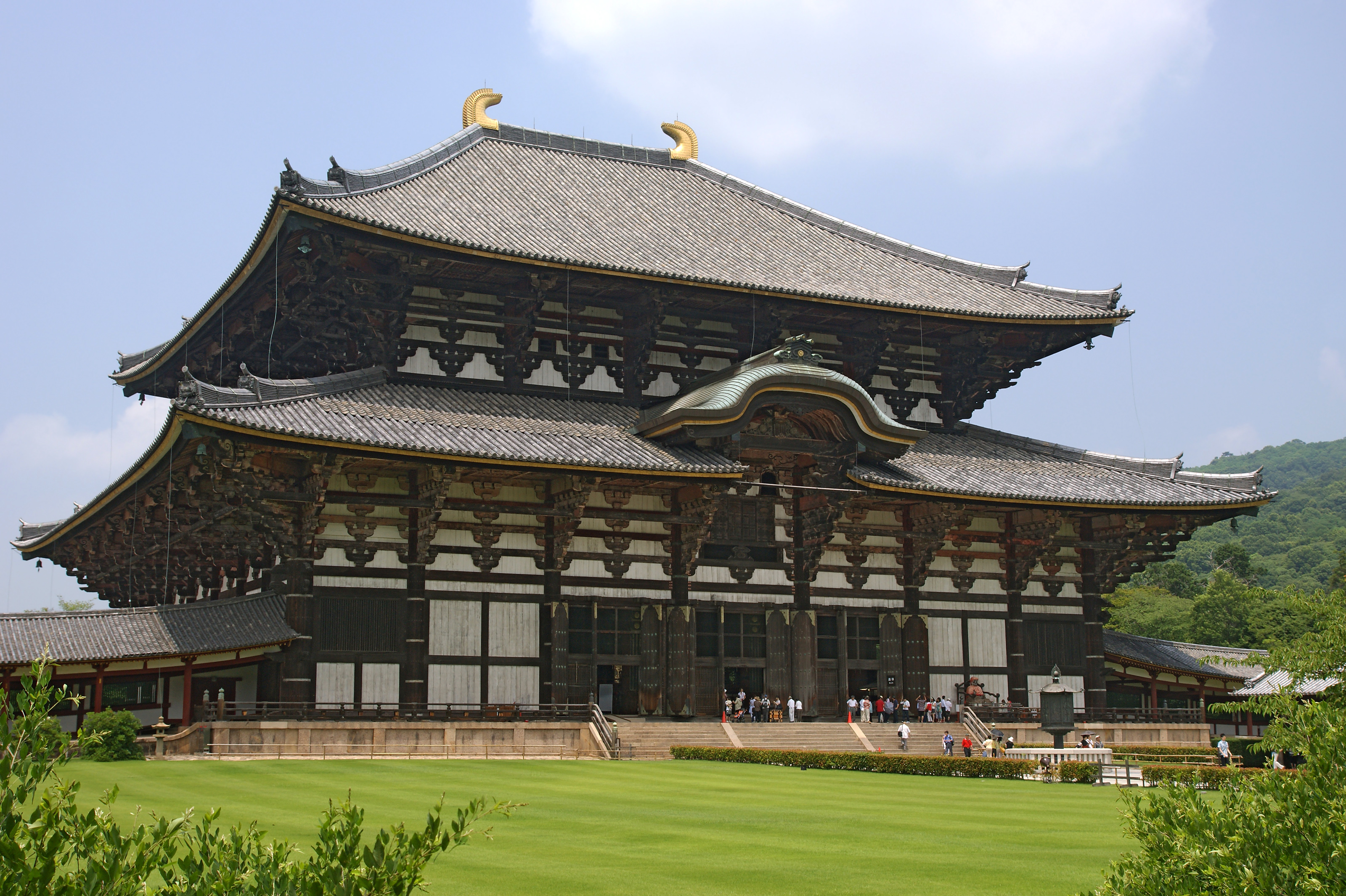 Todaiji in Nara, Nara prefecture, Japan